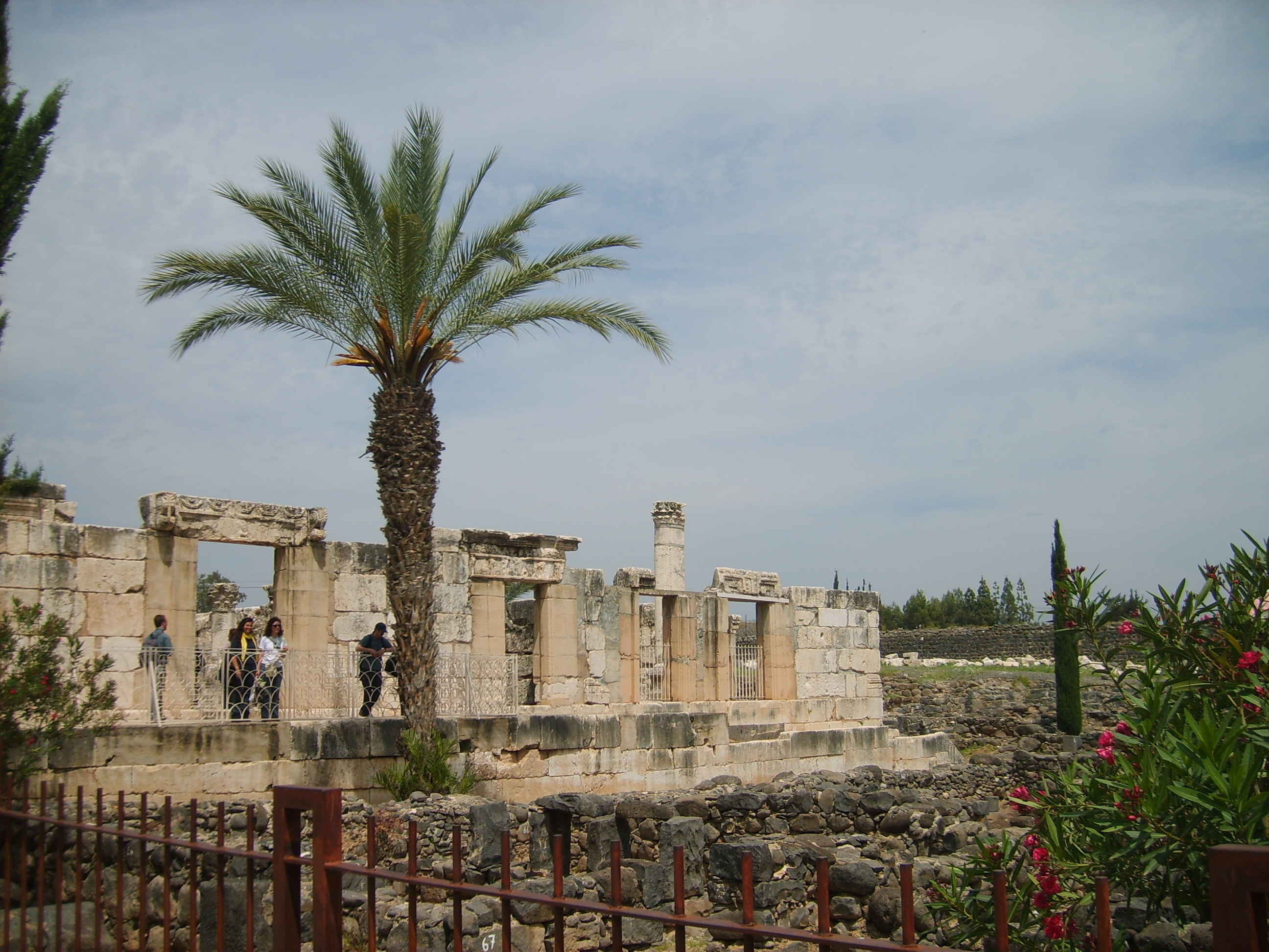 Remains of the 4th/5th century synagogue in Capernaum.